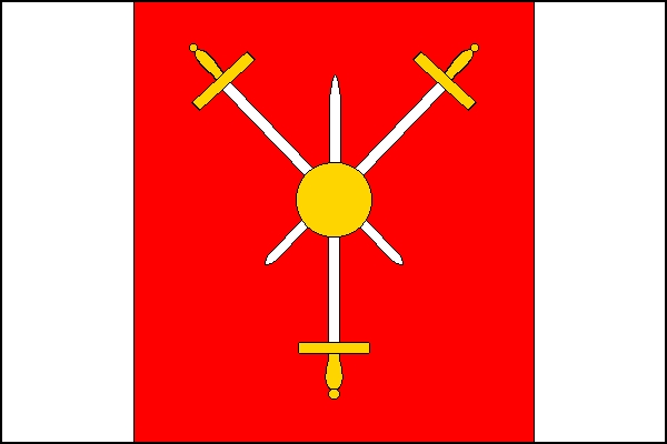 Flag of village Slavkov (Opava District) in Moravian-Silesian Region, Czech Tepublic. Česky: Vlajka obce Slavkov nacházející se v Moravskoslezském kraji. (Blason: List tvoří tři svislé pruhy: bílý, červený a bílý v poměru 1:3:1. V červeném poli tři bílé meče se žlutým jílcem a záštitou, uspořádané do tvaru písmene "Y". Do středu směřující meče pronikají žlutým kruhovým polem. Poměr šířky k délce listu je 2:3.)